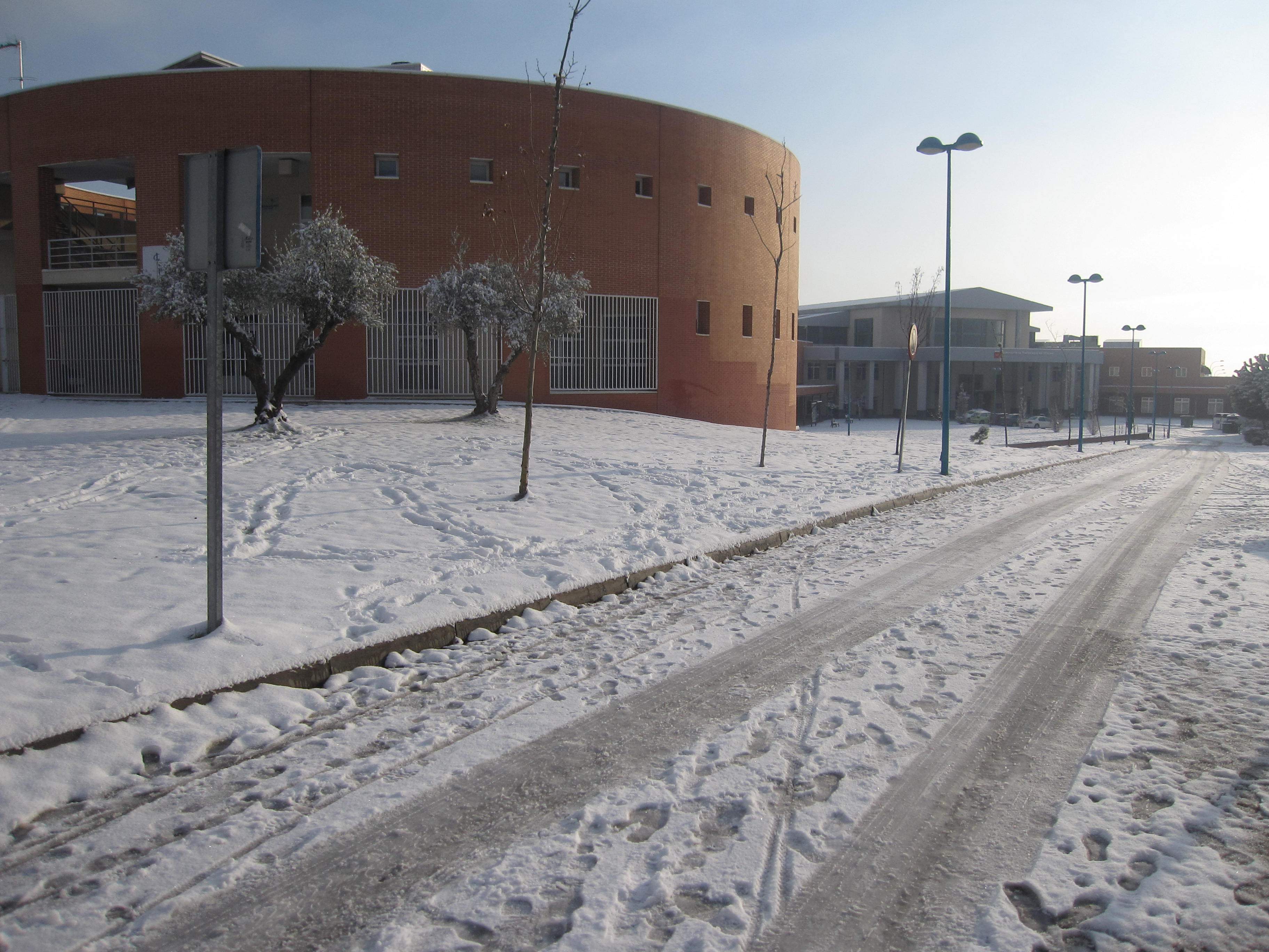 Civic centre and music conservaory of Sector 3 (Getafe), Community of Madrid, Spain.